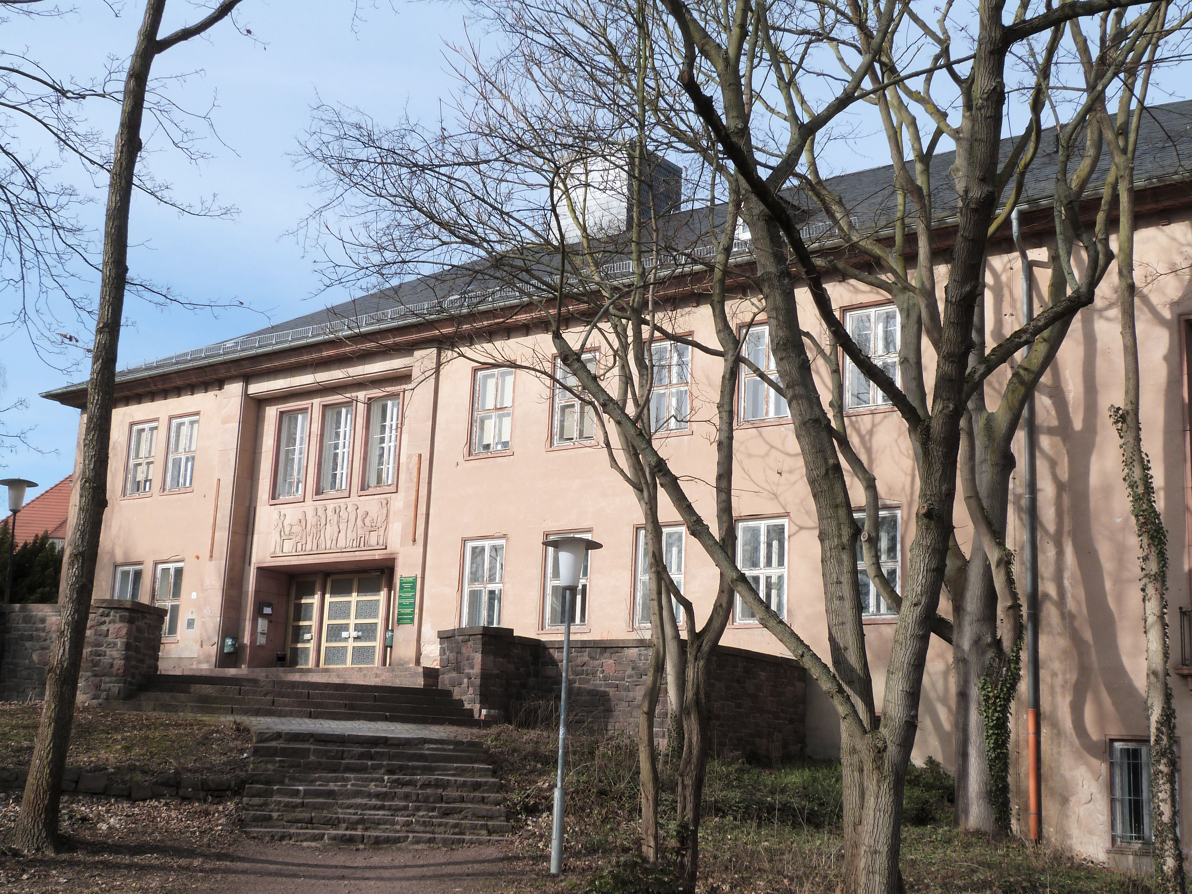 House No. 4 Hoher Weg in Halle (Saale), Institute building from 1950-1955